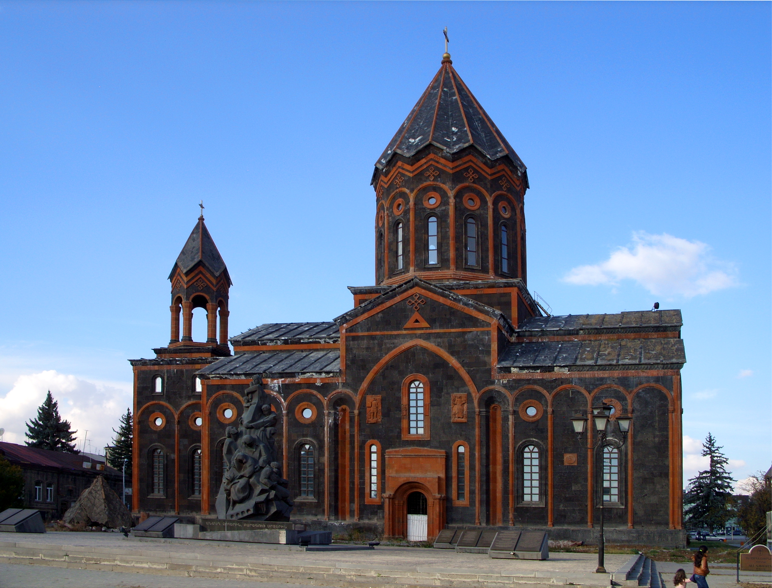 Holy Saviour's Church Gyumri, Armenia